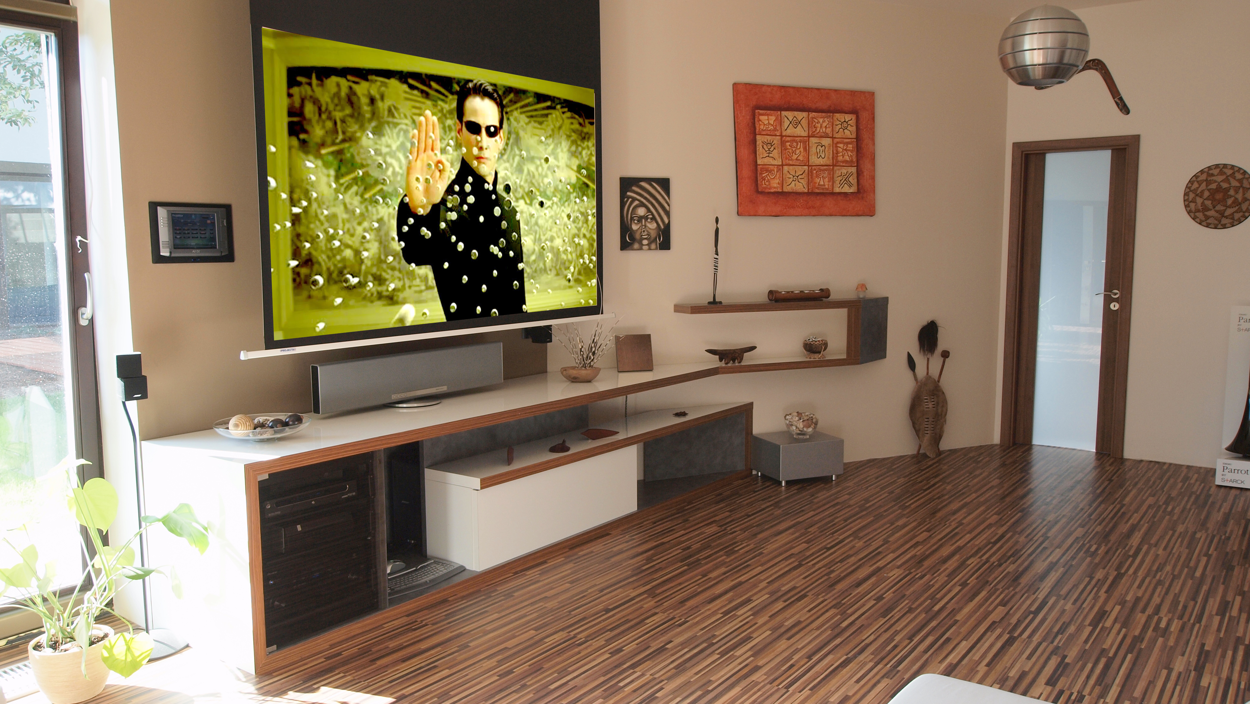 Living room of an intelligent building